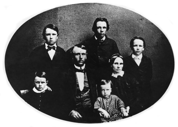 1854 photograph — Hawaiian missionary and painter of Maui Edward Bailey, and Caroline Bailey, are surrounded by their five sons (clockwise from top left): Horatio Bardwell, Edward Hubbard (E.H.), William Hervey, Charles Alden and James Clark.